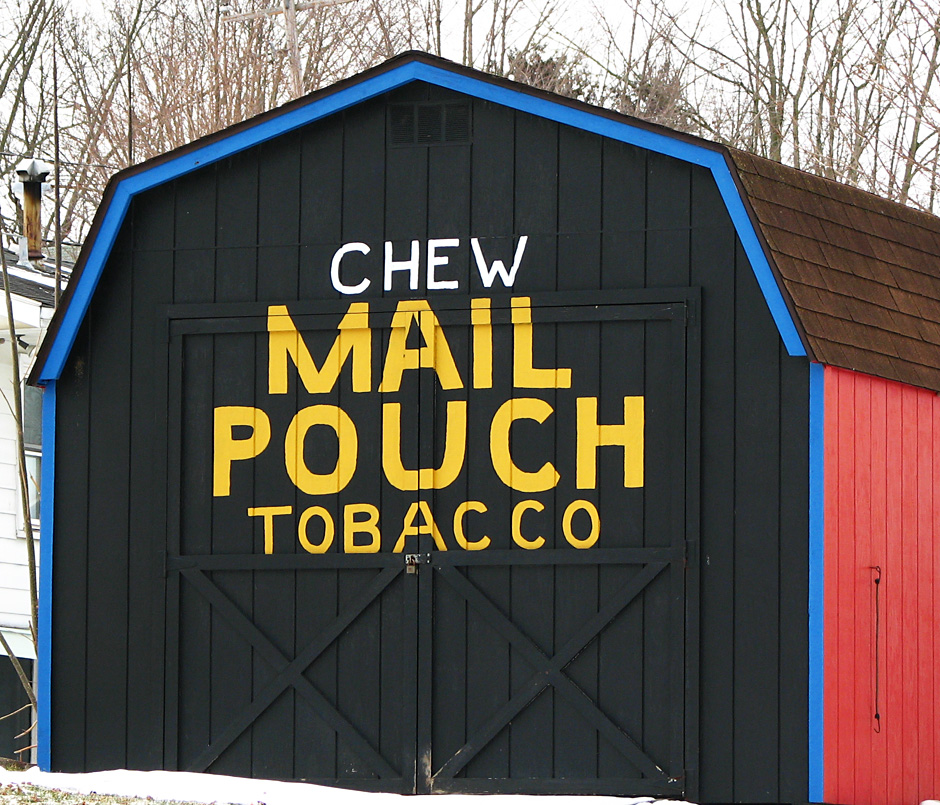 A new shed in Fultonham, Ohio, United States, painted in the style of a Mail Pouch Tobacco barn.